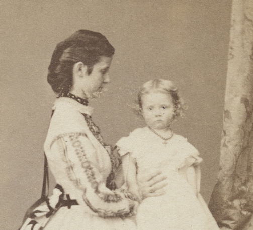 Princess Maria Annunziata of Bourbon-Two Sicilies (1843–1871) and the Archduke Franz Ferdinand (1863-1914)